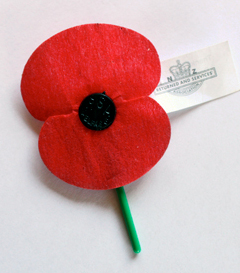 The New Zealand RSA Flanders poppy which is worn mainly on Anzac Day but also on other days of remembrance.